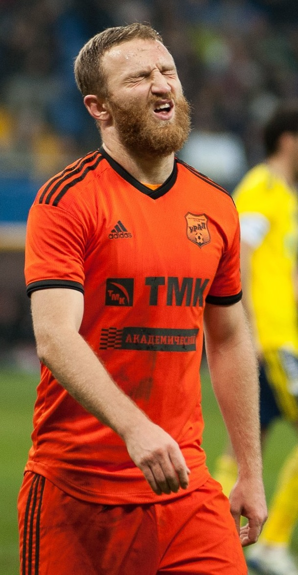 Varazdat Haroyan with FC Ural Yekaterinburg in a game against FC Rostov.